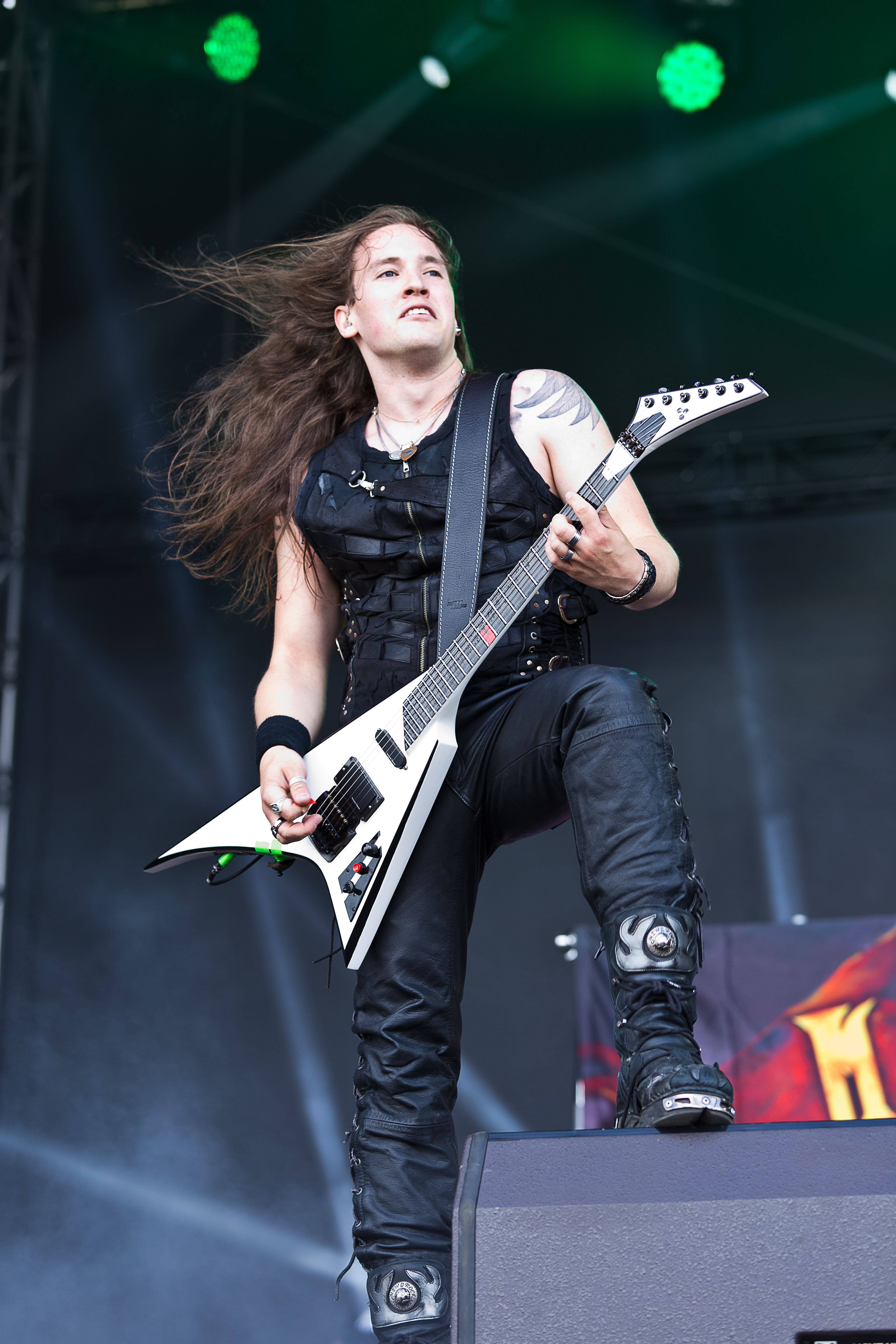 The German heavy metal band Majesty at the Rockharz Open Air 2015 in Ballenstedt/Germany.